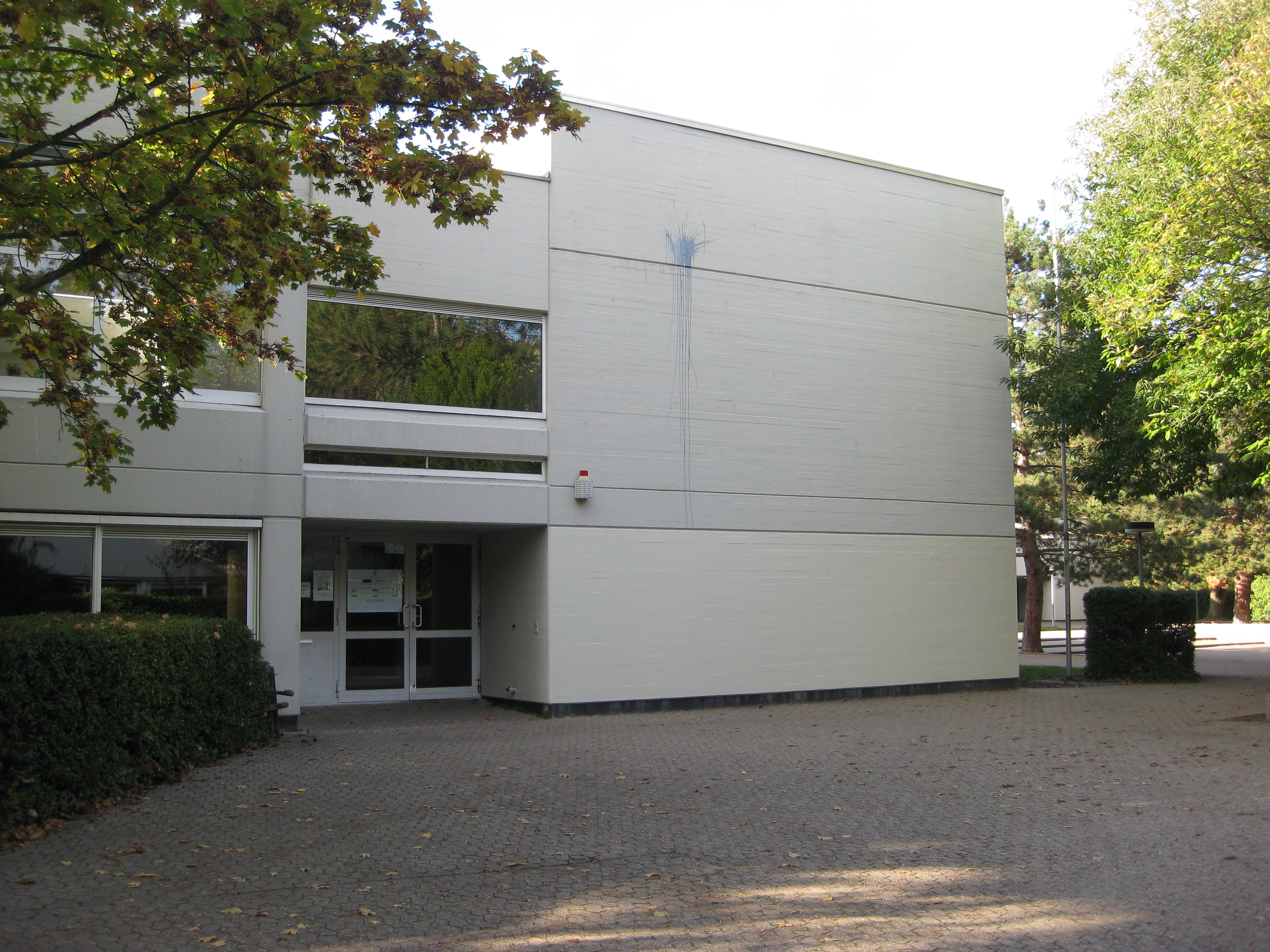 Germany, Bonn-Oberkassel: main entrance of Kardinal-Frings-Gymnasium, a private school.